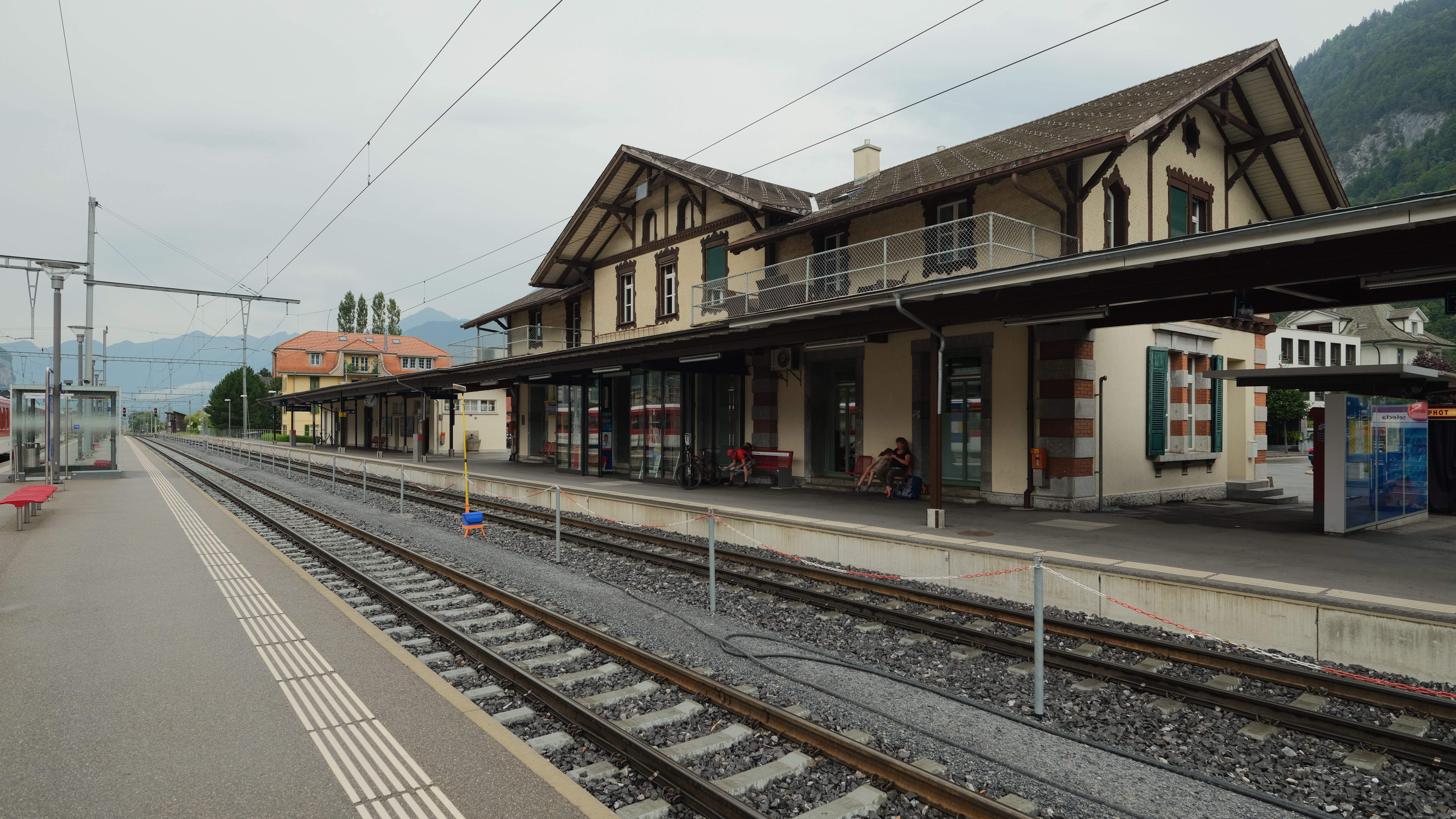 Meiringen railway station, Switzerland.